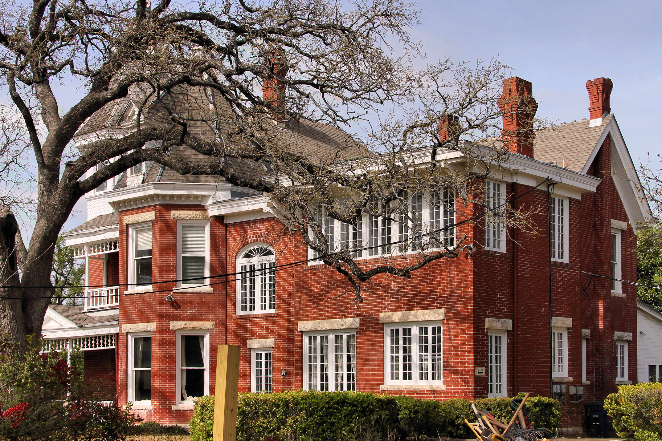 The Sheeks-Robertson House, Austin, Texas, United States. The house was listed on the National Register of Historic Places on June 24, 1976.